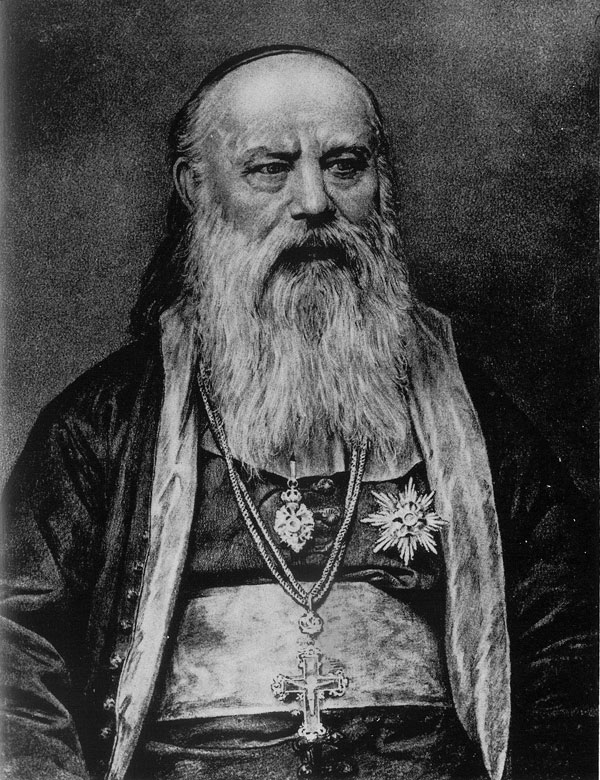 Nikanor Grujic